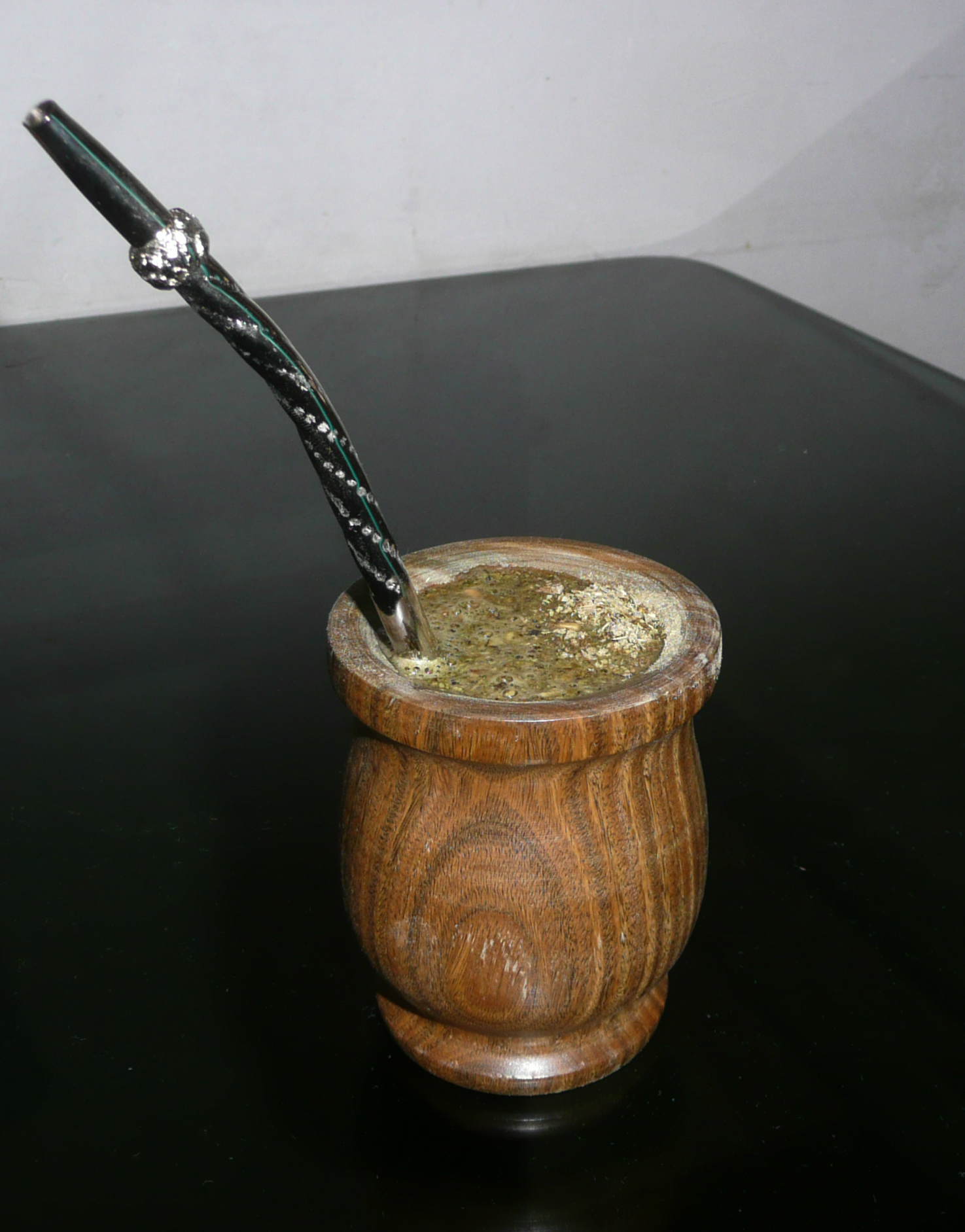 Mate made from wood of "Palo Santo" (Bulnesia sarmientoi).